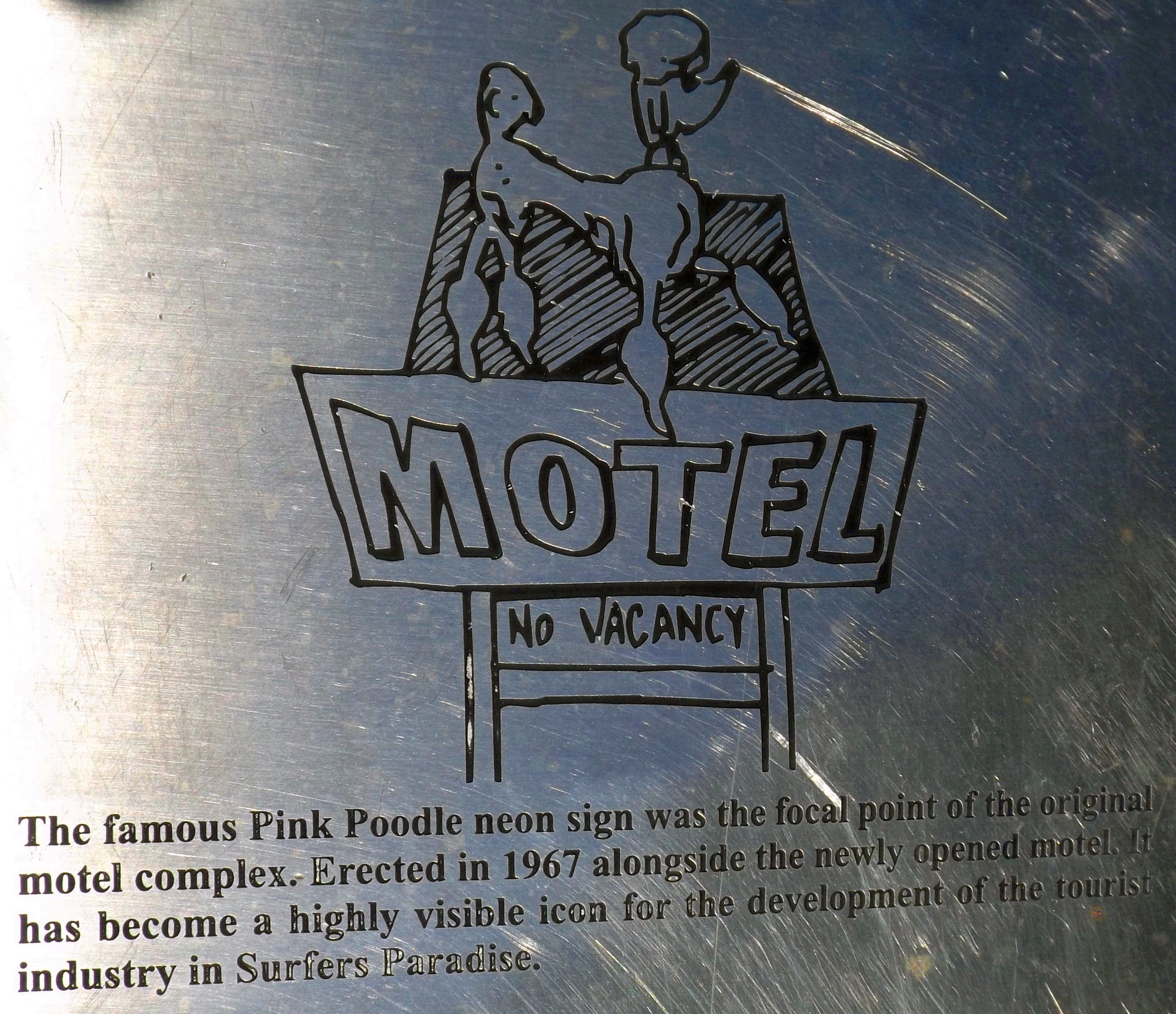 Photo of the plaque at the base of the Pink Poodle sign at Surfers Paradise, Gold Coast City, Queensland, Australia.